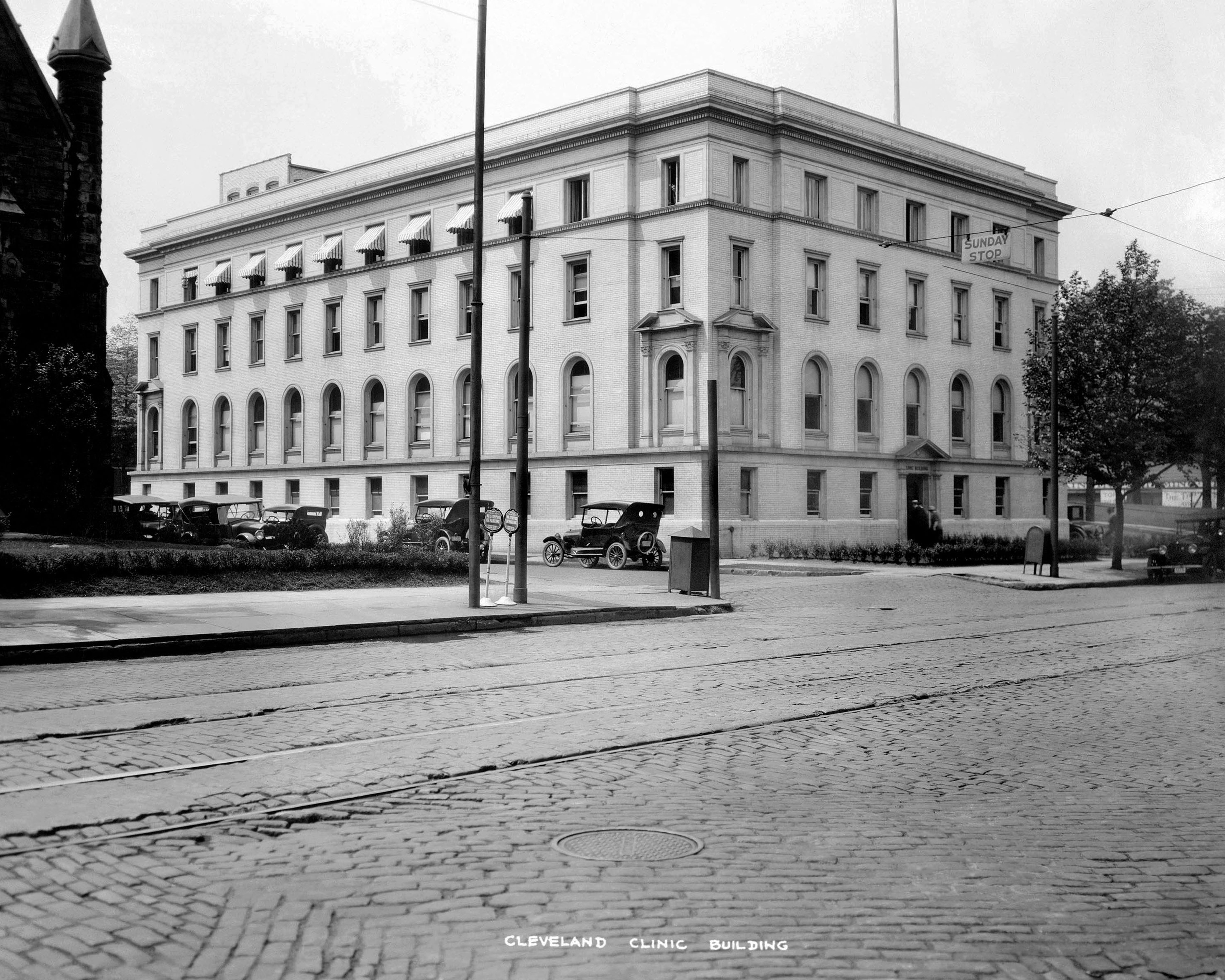 Original Cleveland Clinic Building circa 1921